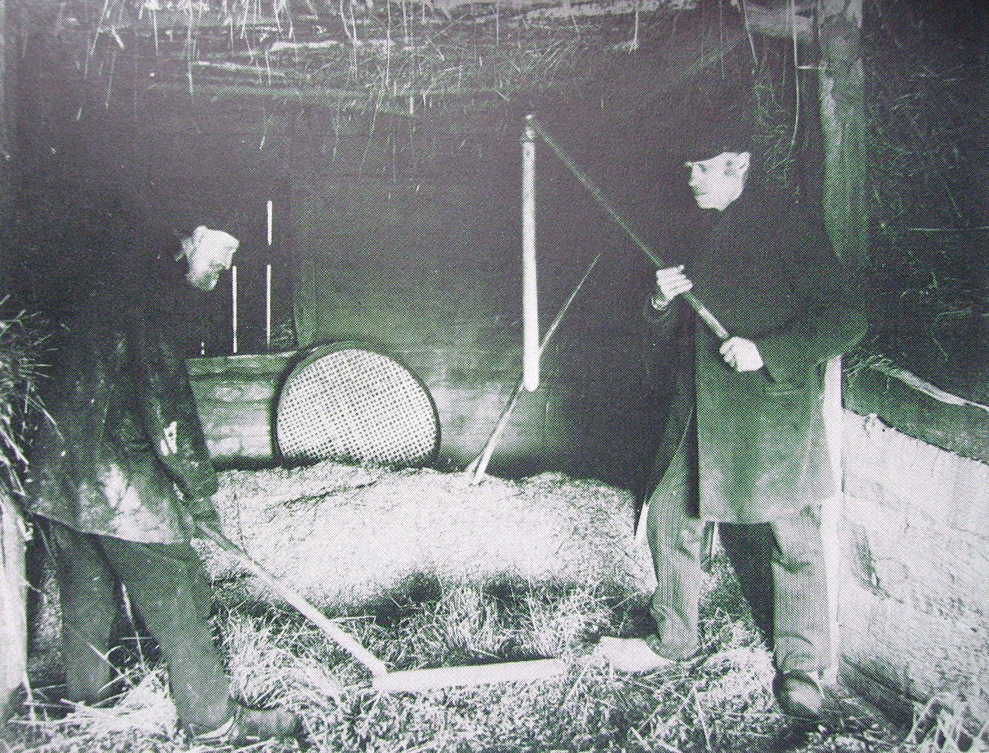 Picture of manual labour at the Swedish countryside in Västergötland 1903